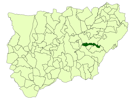 Situation of the municipality of Santo Tomé (Jaén, Spain).